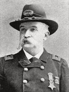 Illustration of James Quinland, American Civil War Medal of Honor recipient, Deeds of valor; how America's heroes won the Medal of Honor, published in 1901.